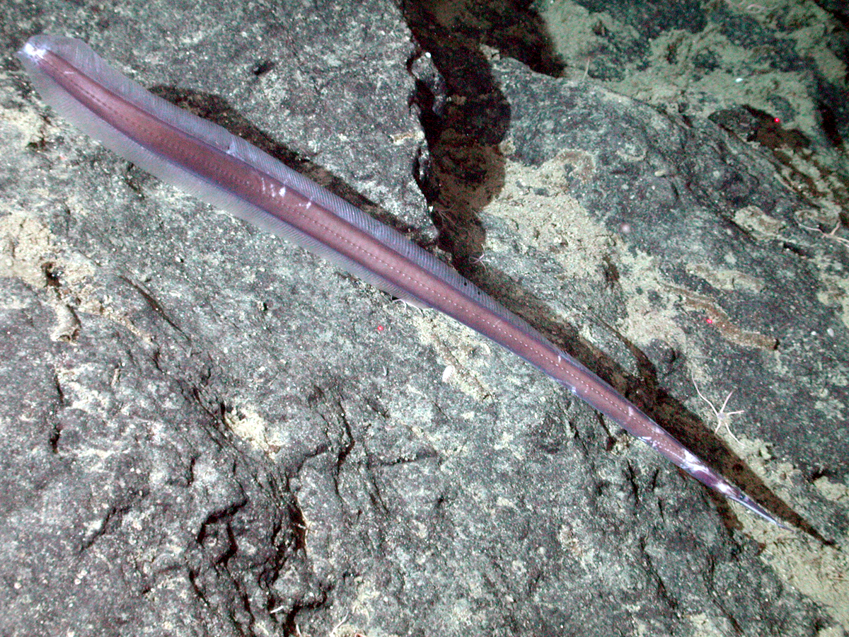 The witch eel (Venefica tentaculata) typically inhabits midwater (1000 m) depths; but it is seen here on the slope of the Davidson Seamount (1854 meters depth). The largest recorded specimen is 90 cm total length. This specimen (with a broken tail) is approximately 56 cm total length. This in situ observation may be the first time a witch eel has been observed alive.